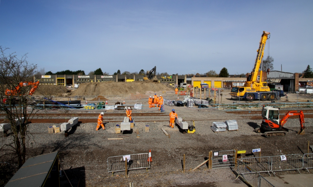 Bicester Town railway station, Oxfordshire: construction site, with supports for both platforms installed